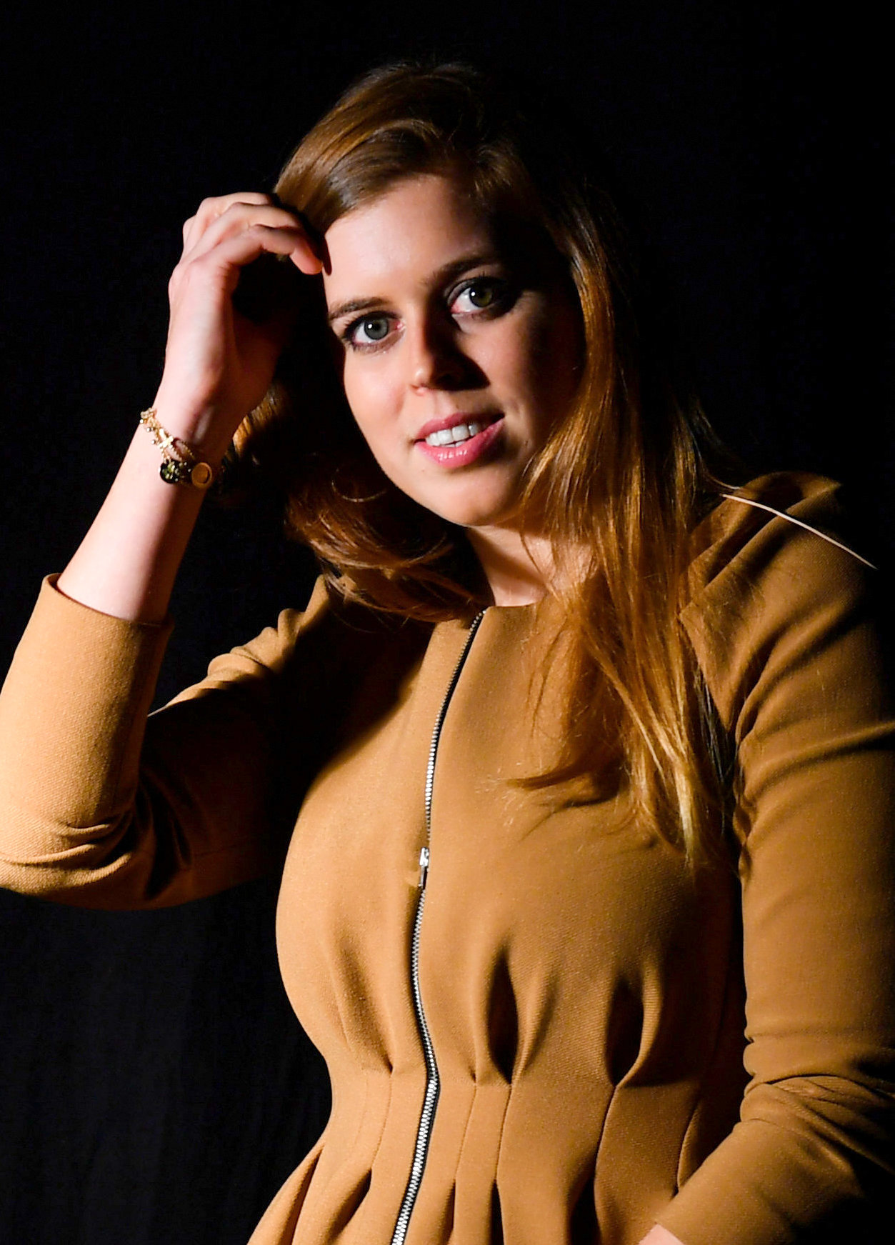 Princess Beatrice of York at Day 2 of Web Summit 2018.